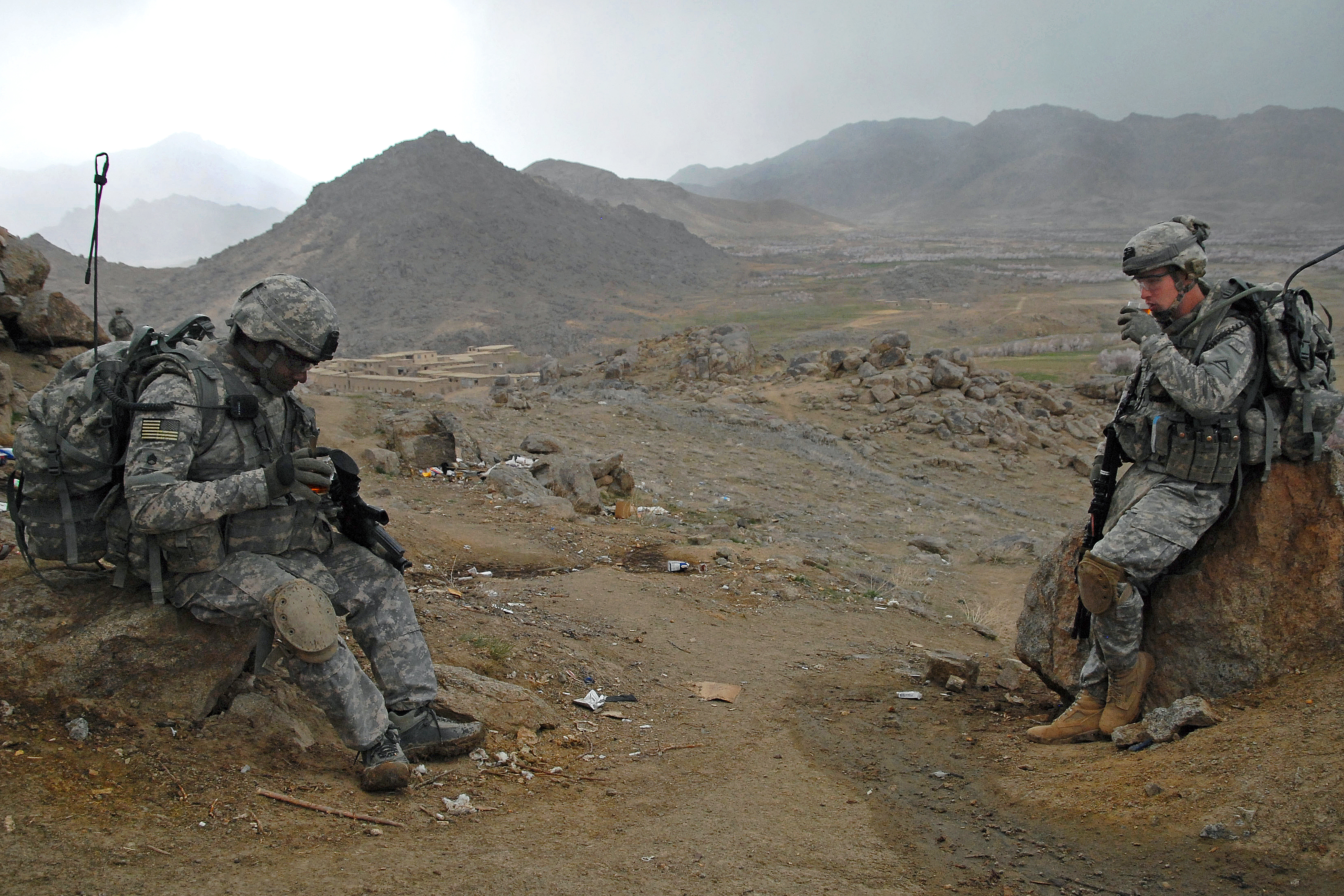 U.S. Army Staff Sgts. Danieto Bacchus, left, and Robert Newman, Bravo Company, 1st Battalion, 4th Infantry Regiment, U.S. Army Europe, drink chai tea at an Afghan National Army outpost near Forward Operating Base Baylough, Zabul, Afghanistan, March 18, 2009. U.S. Army photo by Staff Sgt. Adam Mancini.